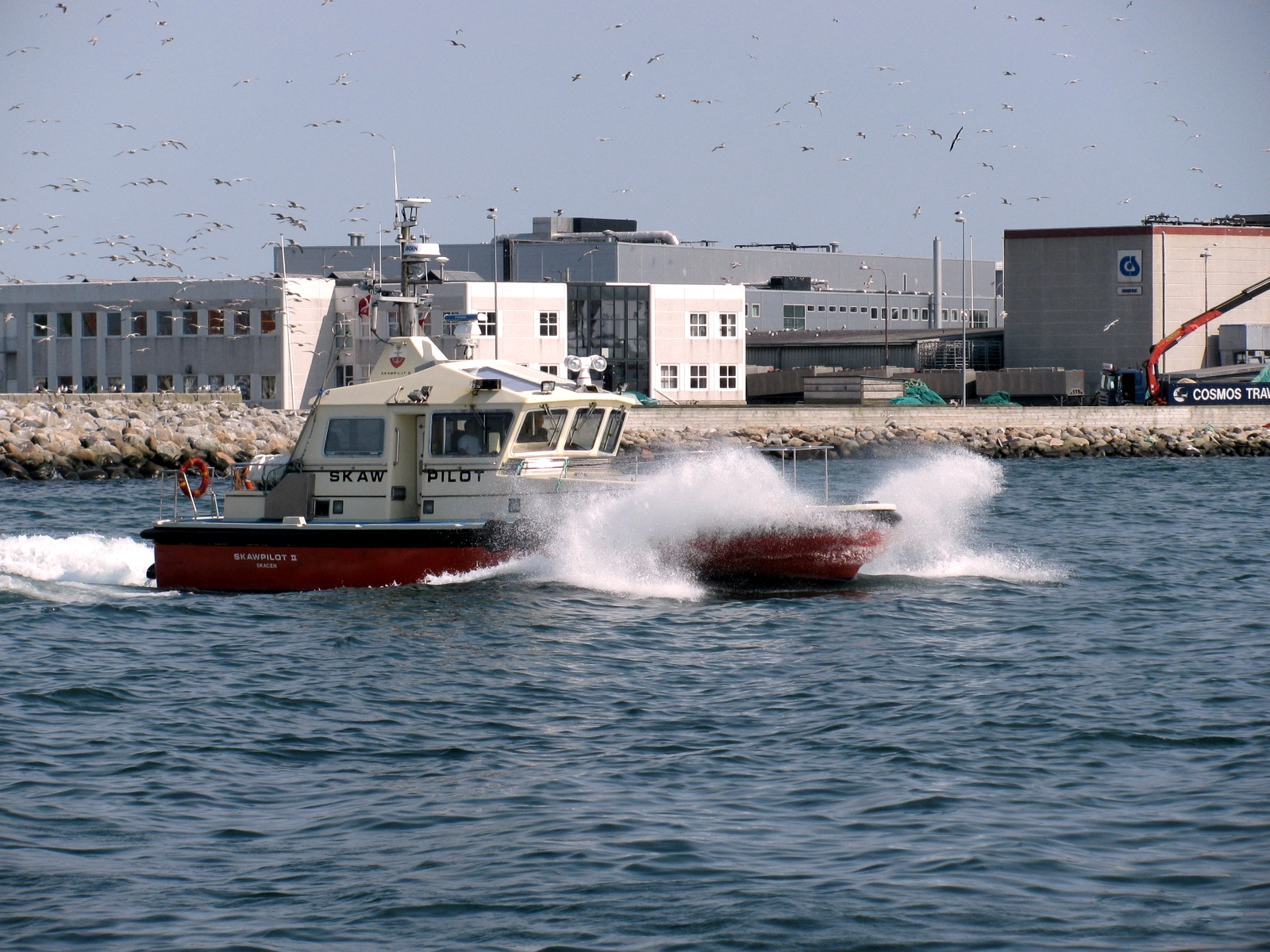 Skawpilot II in the Port of Skagen